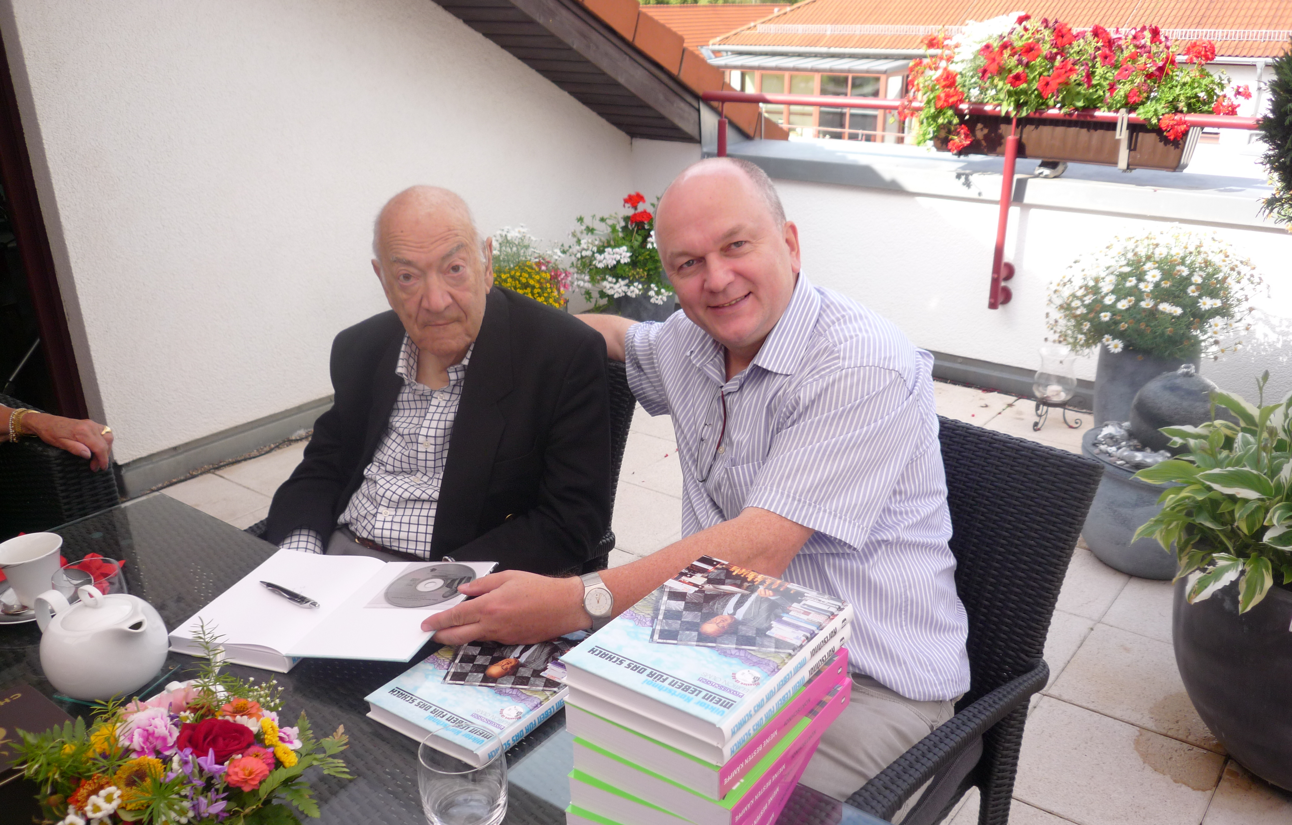 Köhler und Schachgroßmeister Viktor Kortschnoi